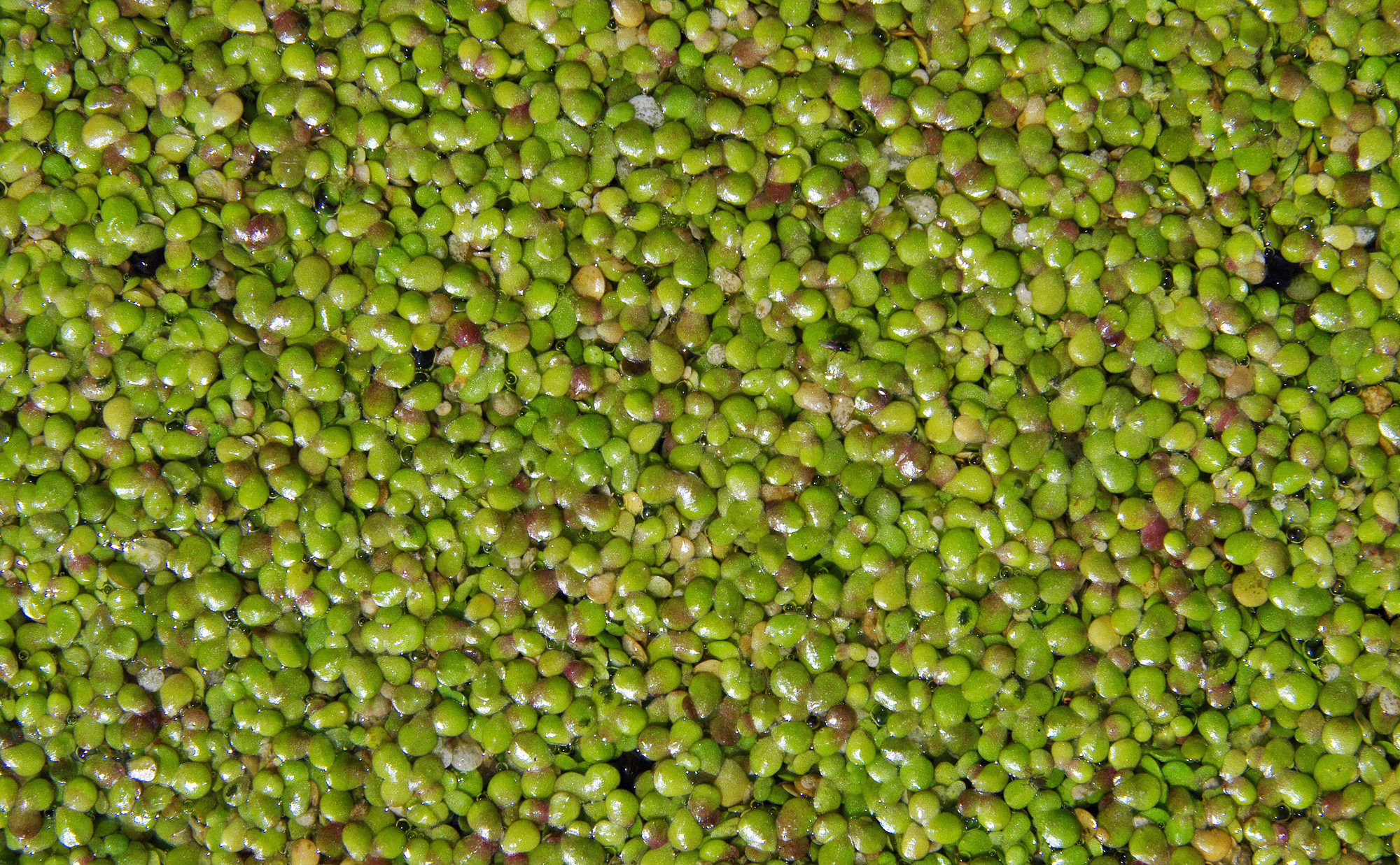 Plants of Gibbous Duckweed, Lemna gibba, floating on the surface of a pool. In the summertime, the plants look "humpbacked" and not as flat as the similar Lesser Duckweed, Lemna minor.